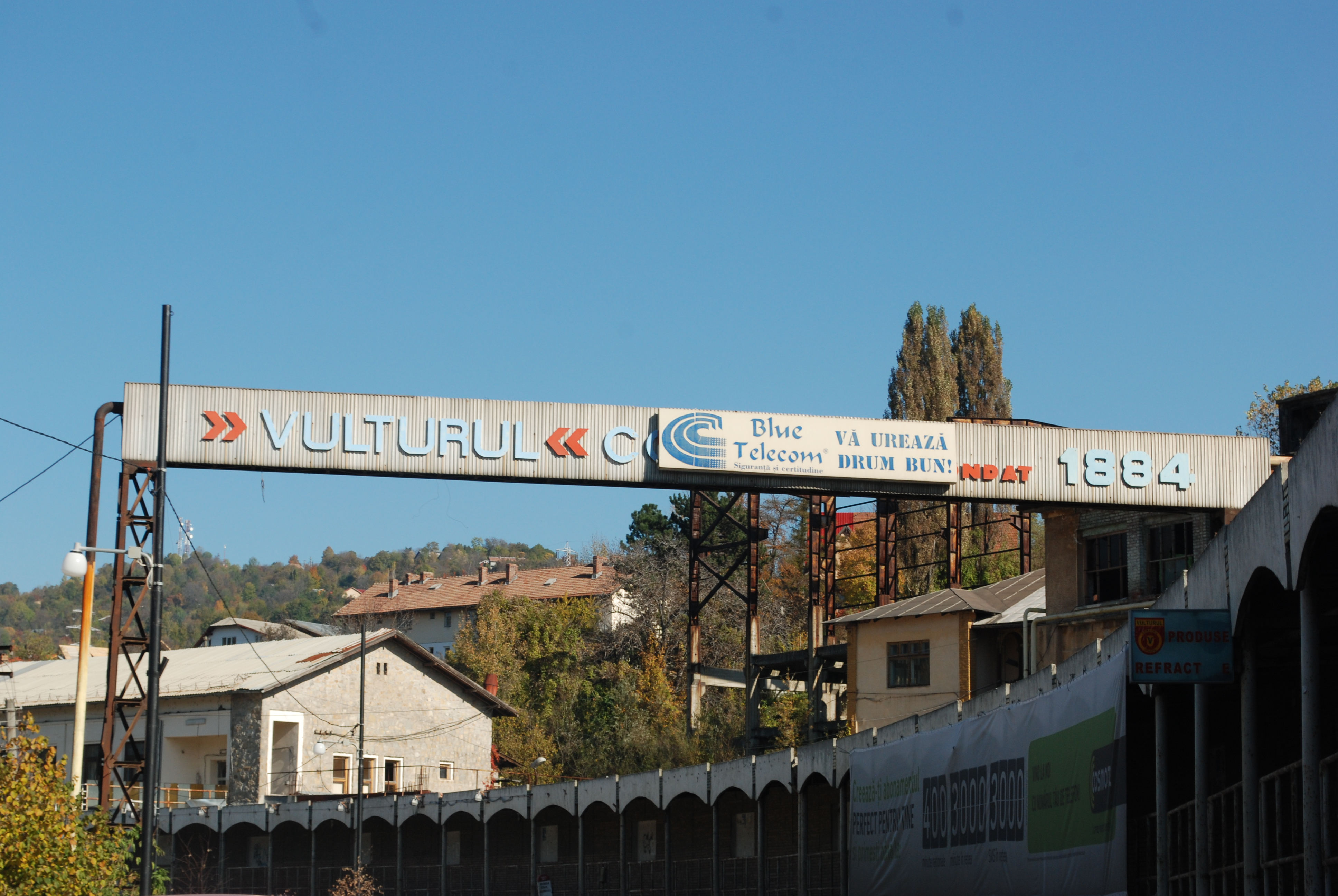 Banner of the "Vulturul" company in Comarnic, Prahova County, Romania